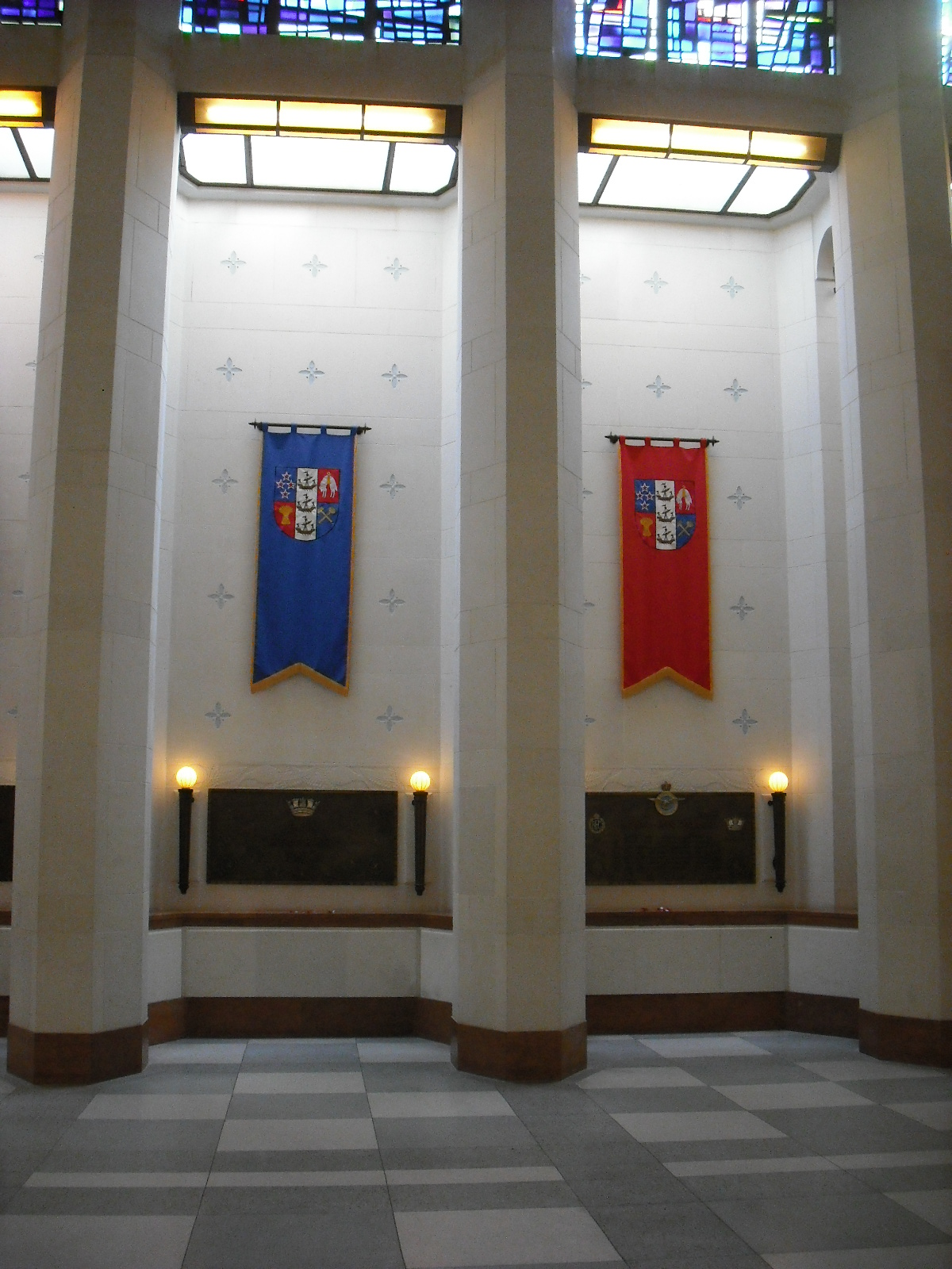 Inside the New Zealand National War Memorial